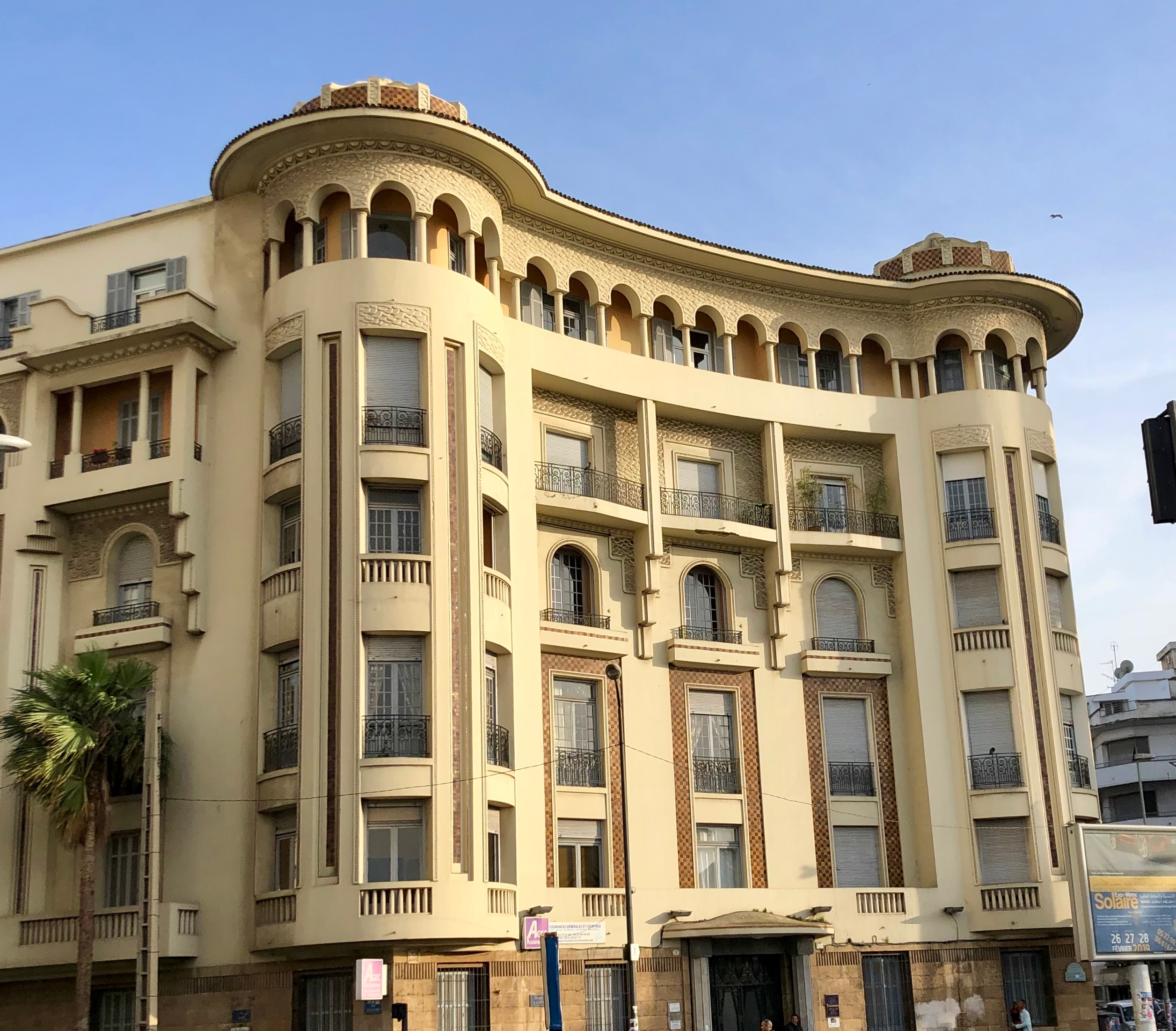 View of the façade of the IMCAMA Building in Casablanca, Morocco. This building was designed in the Art Deco style by Albert Greslin and constructed in 1928. IMCAMA stands for "Société Immobilière de Casablanca et Maroc."